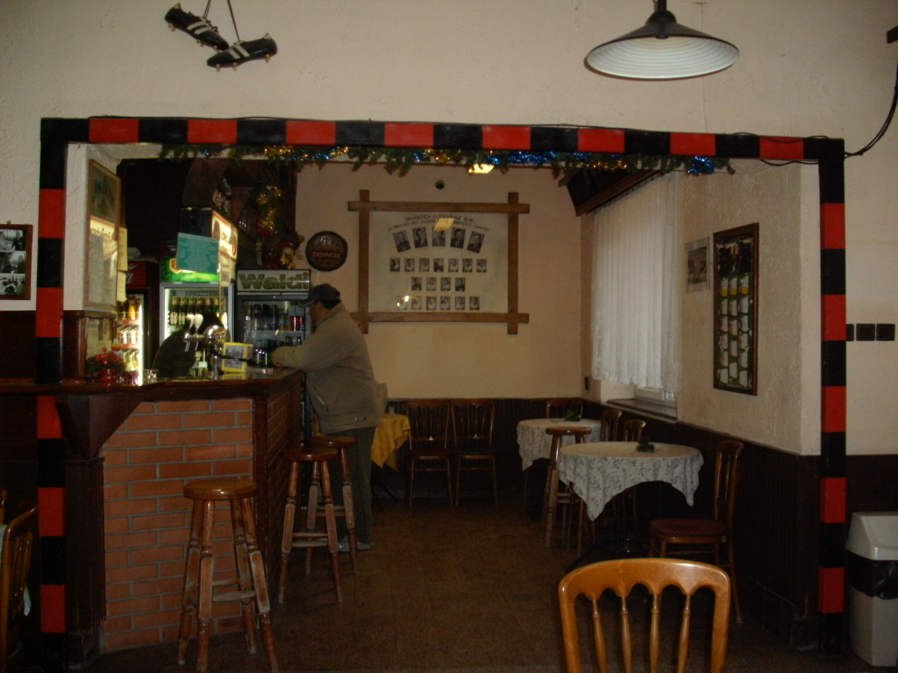 The restaurant of Buzanszky stadium inside